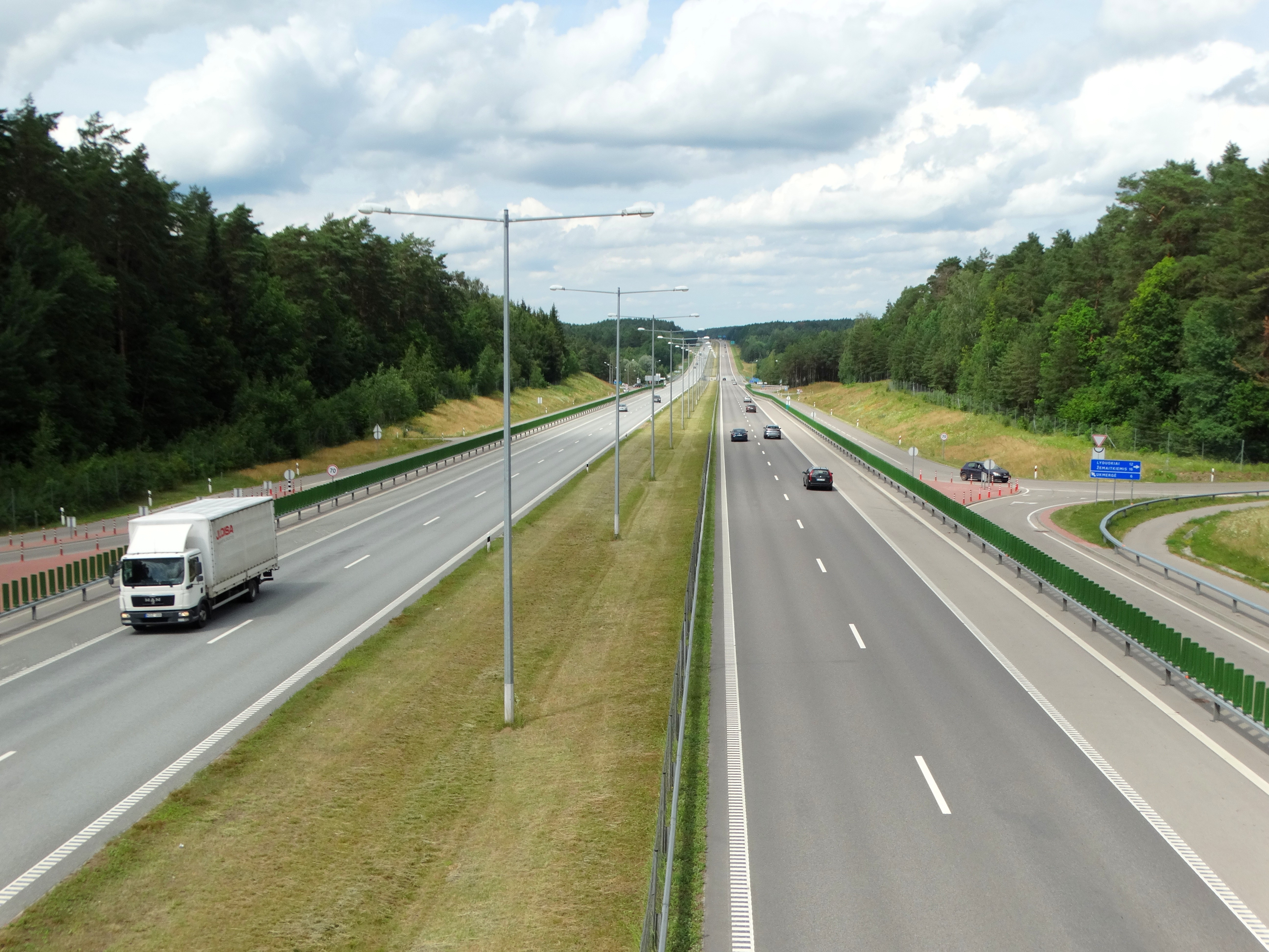 A2 highway near Ukmergė, 72 km, Lithuania